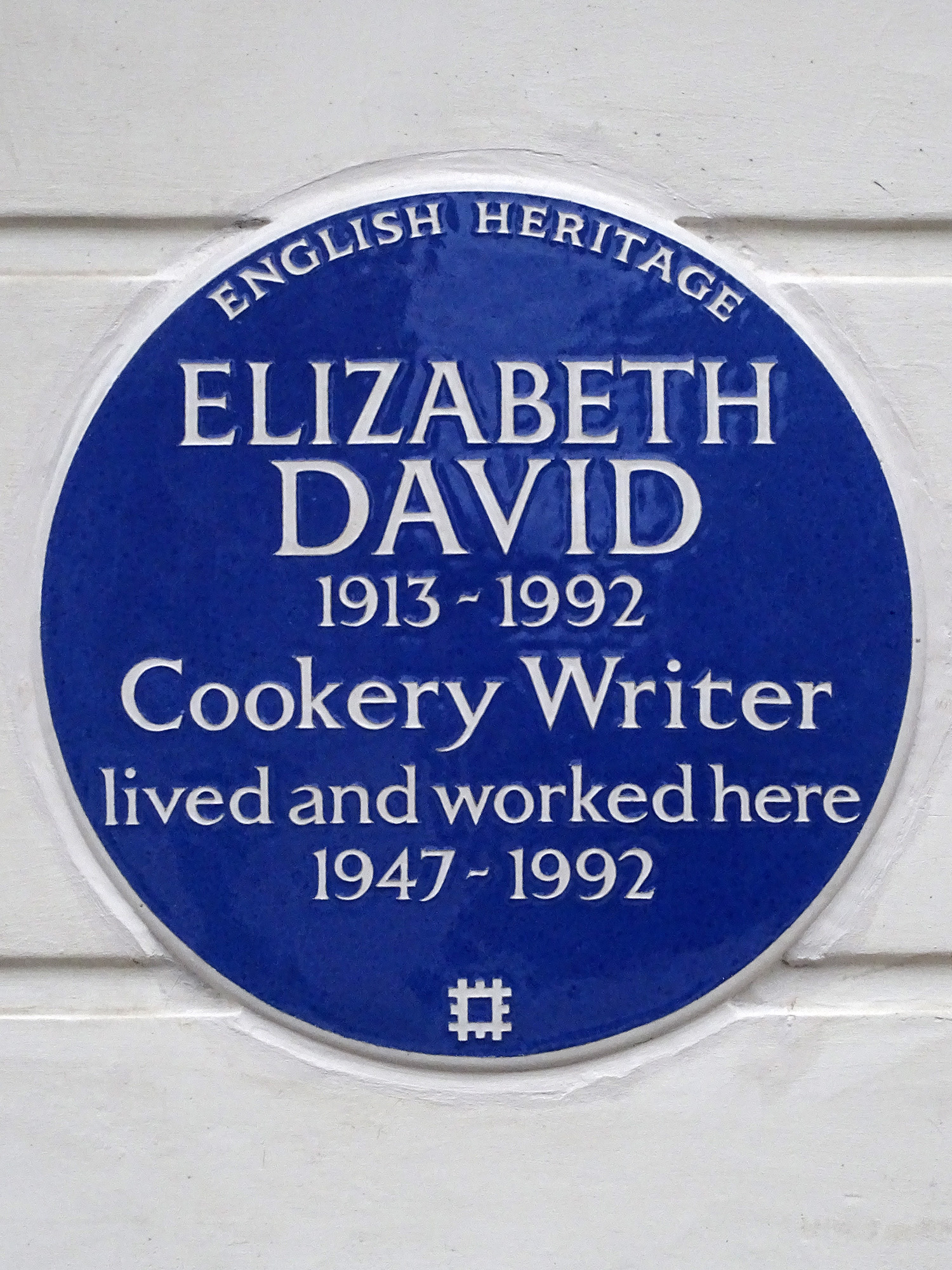 Blue plaque erected in 2016 by English Heritage at 24 Halsey Street, Chelsea, London SW3 2PT, Royal Borough of Kensington and Chelsea